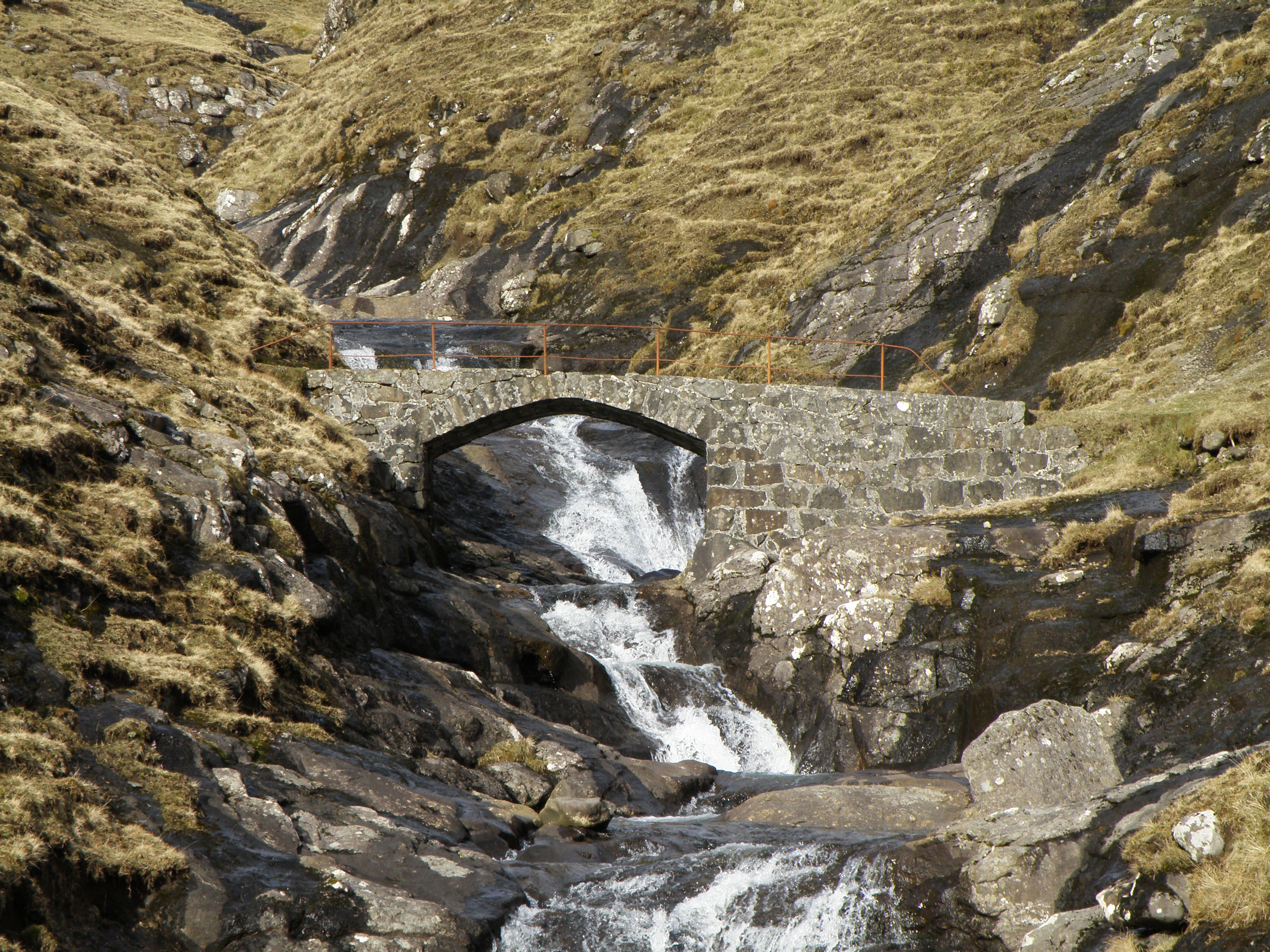 Skælingur is a small village on the west coast of Streymoy island in the Faroe Islands. This is an old stone bridge just before the village. The nearest neighbour village is Leynar. This photo was taken in April 2010. Føroyskt: Brúgv á Skælingi. Skælingur er lítil bygd á vestursíðuna av Streymoynni. Myndin av hesi steinbrúnni varð tikin 3. apríl 2010.